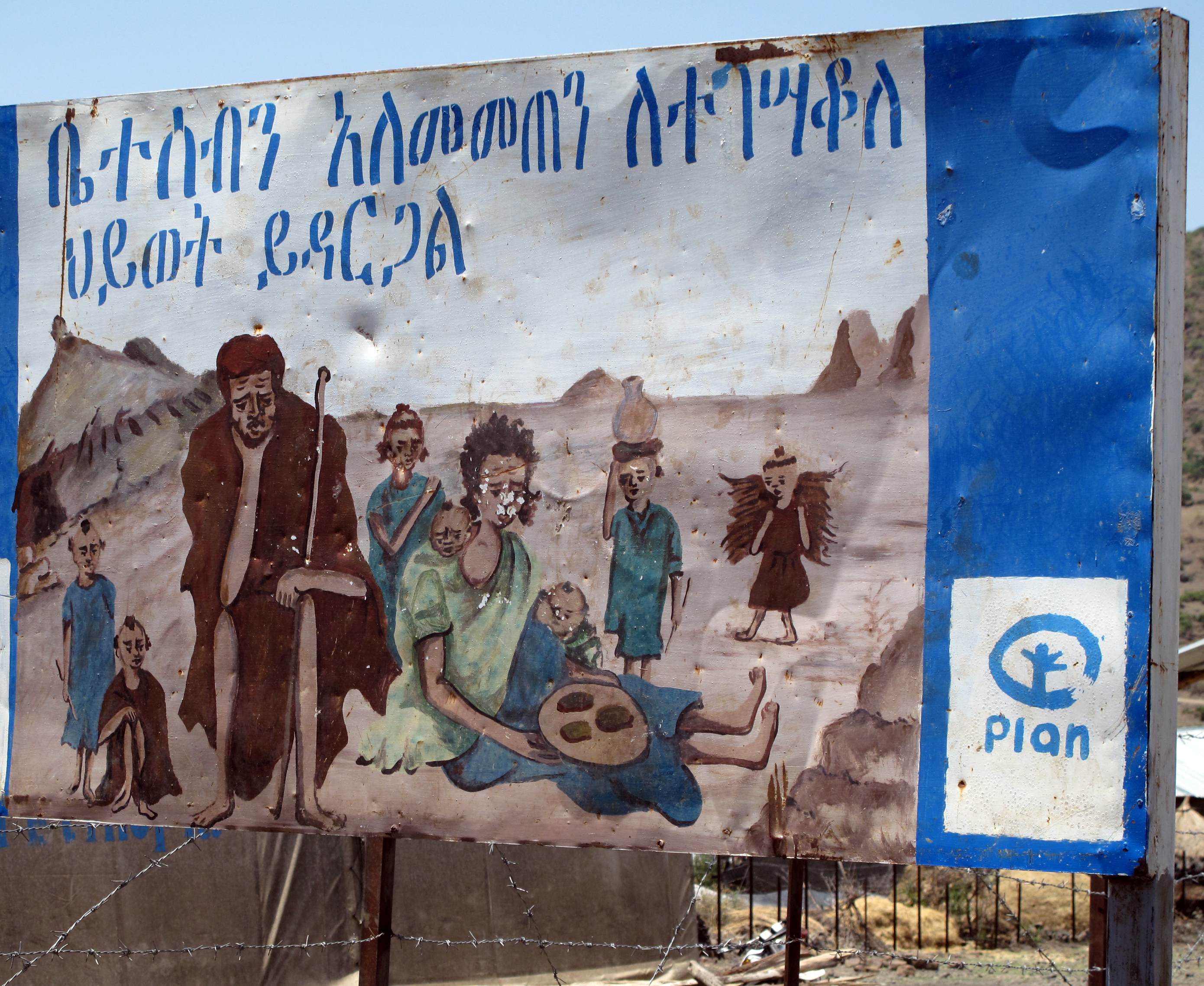 A family planning placard seen near Lalibela, Ethiopia. It shows some negative effects of having too many children. (Poverty, malnourishment, illnesses, insufficient education, deforestation, desertification)